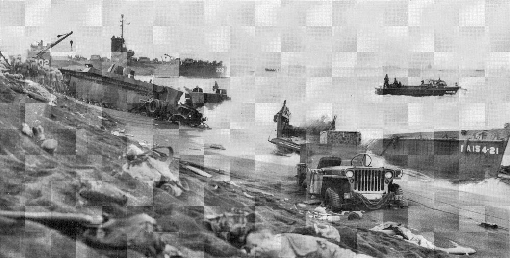 LSM 202 with B Co's 3 D8's. 133's Shore Party at the left in photo- on Beach yellow 2